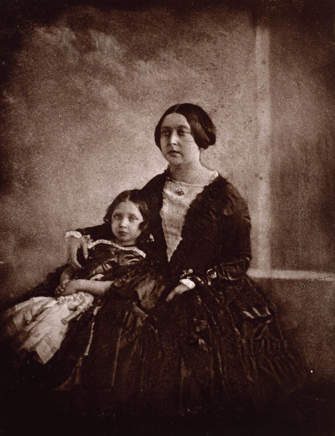 Earliest photograph of Queen Victoria, with the Princess Royal c.1844-5 (printed in carbon in 1891) Carbon print 10.3 x 8 cm Acquired by Prince Albert